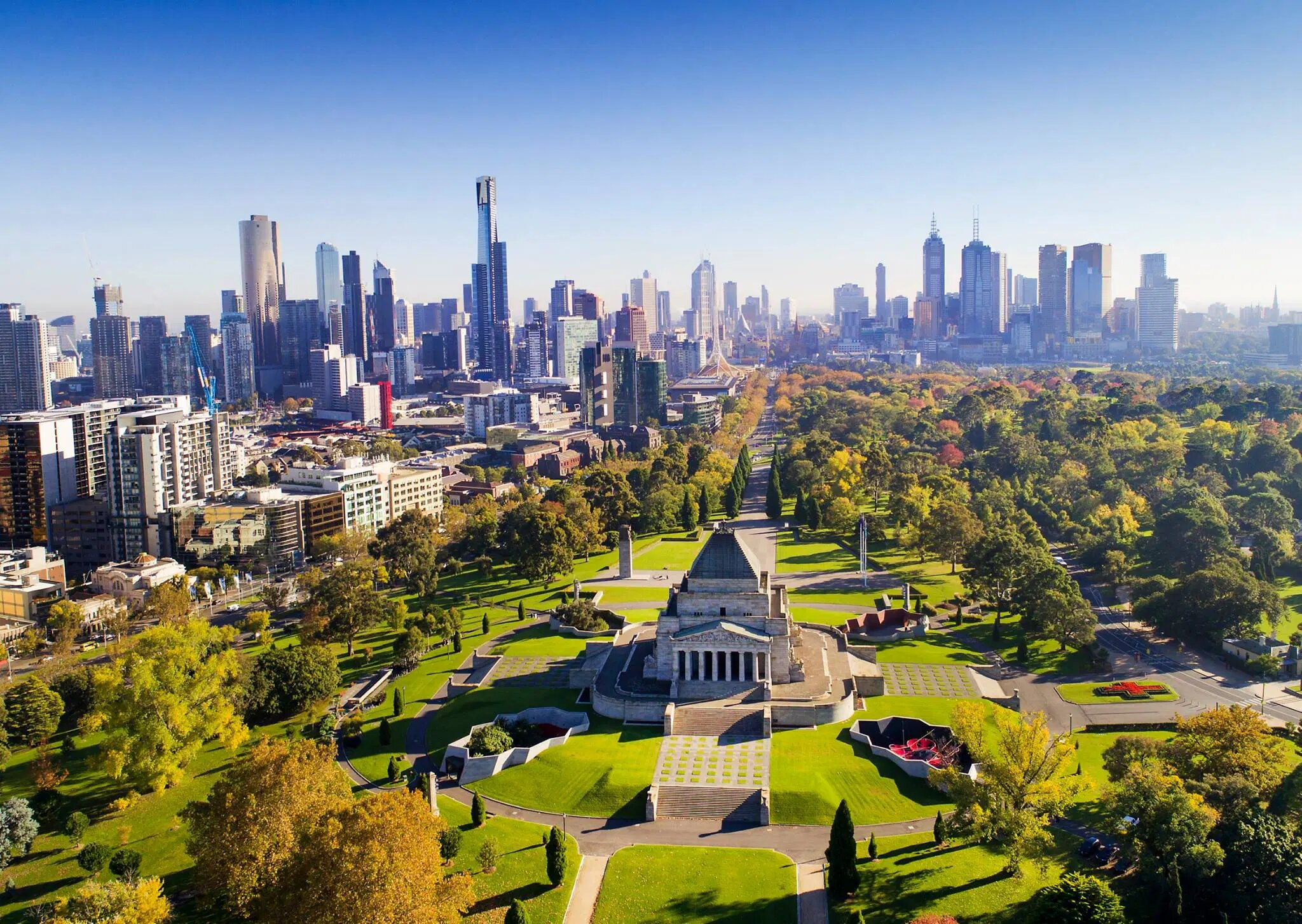 melbourne from shrine of rememberance